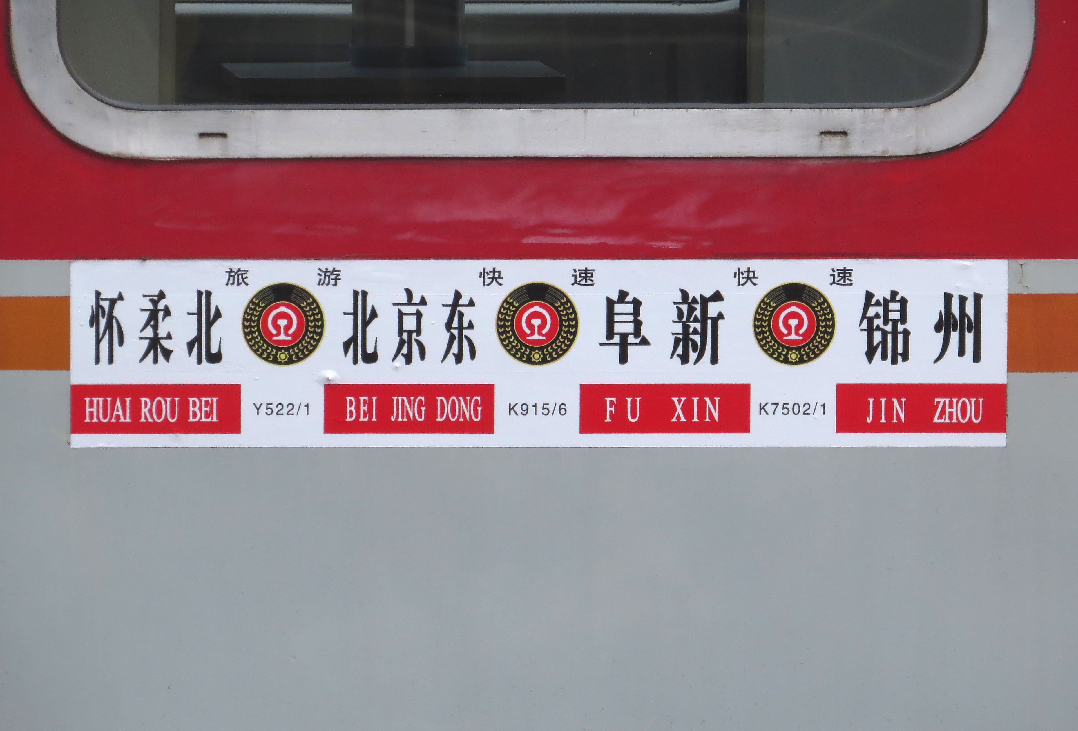 Jinzhou-Fuxin-Beijing East-Huairou North-Gubeikou.